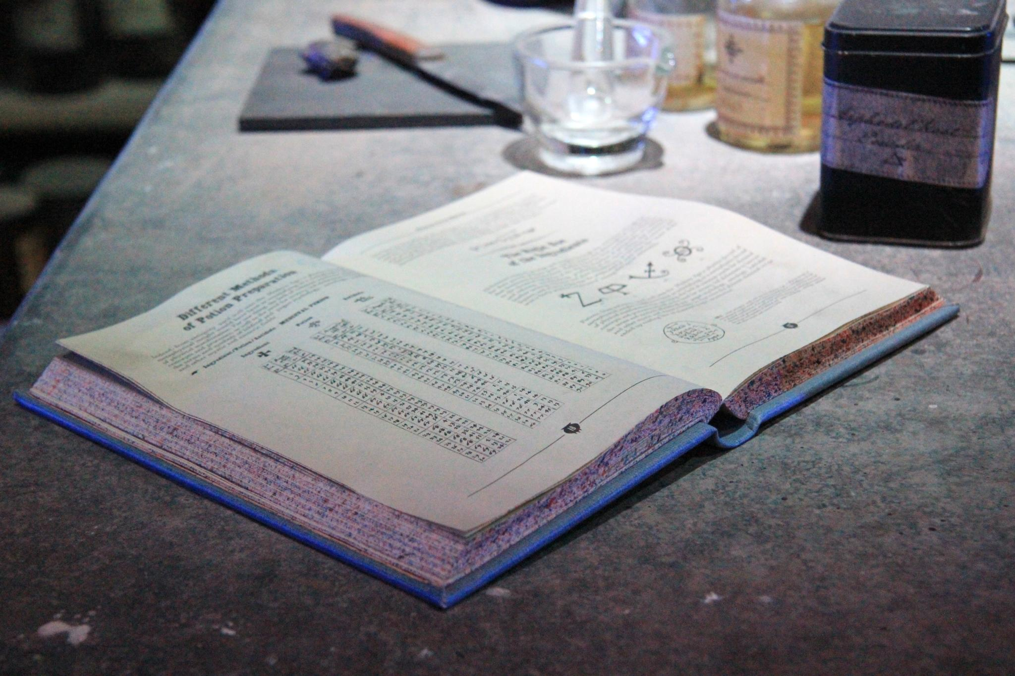 Warner Bros. Studio Tour London: The Making of Harry Potter.